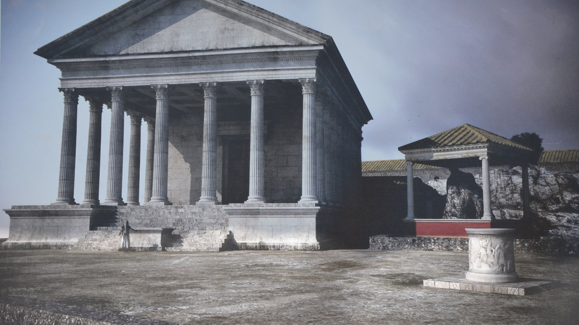 Reconstruction of the main temple and the rock of the Oracle of the so-called Sanctuary of Jupiter Anxur, Terracina, Italy